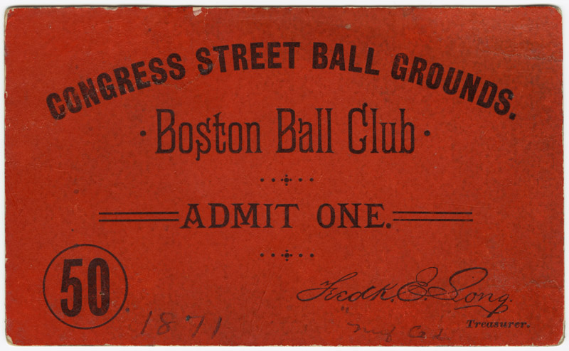 Accession No.: 06_06_000162 Title: Congress Street Ballgrounds pass Caption: Congress Street Ball Grounds. Boston Ball Club. Creator: unidentified Date: 1871 Format: ephemera Description: Season pass for the Congress Street Ballgrounds in South Boston for the 1871 season. Signed with printed signature of Frederick E. Song, Treasurer. Annotated in pen with "1871" and "nuf ced." BPL Collection: McGreevey Collection BPL Department: Print Relation: Front Subject: Baseball--History